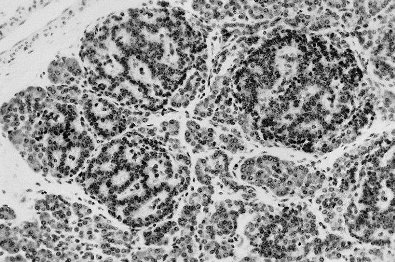 PANCREAS: ISLET HYPERPLASIA OF BECKWITH-WIEDEMANN SYNDROME Note crowding without fusion of islets inside pancreatic lobules. (Courtesy of Dr. Cesare Bordi, Parma, Italy.)